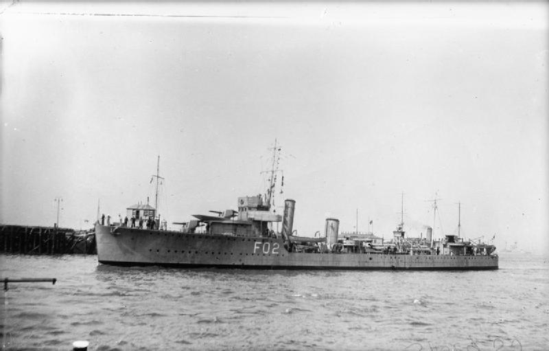 British destroyer HMS WESTMINSTER.